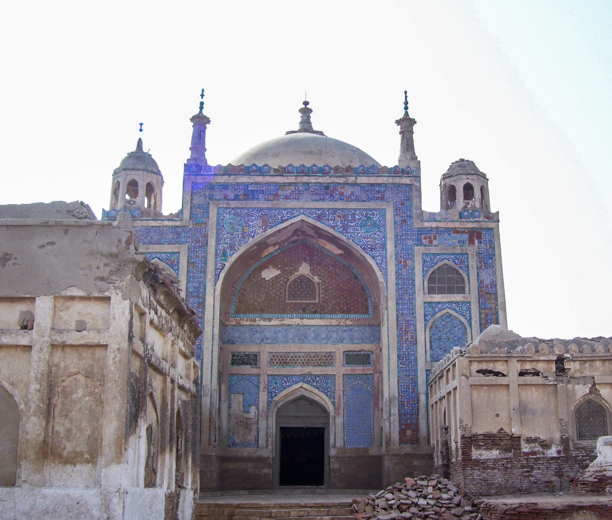 Tomb of Noor Muhammad Kalhora in Shaheed Benazirabad District, Sindh, Pakistan. Mian Noor Muhammad Kalhoro, son of Mian Yar Muhammad Kalhoro, ruled over Sindh from 1719 AD to 1754 AD. His tomb is situated at a distance of 8 kilometers from Shahpur Jahania, District Benazirabad (Nawab Shah), towards east near village Mian Noor Muhammad Ja Quba. This is a photo of a monument in Pakistan identified as the SD-50